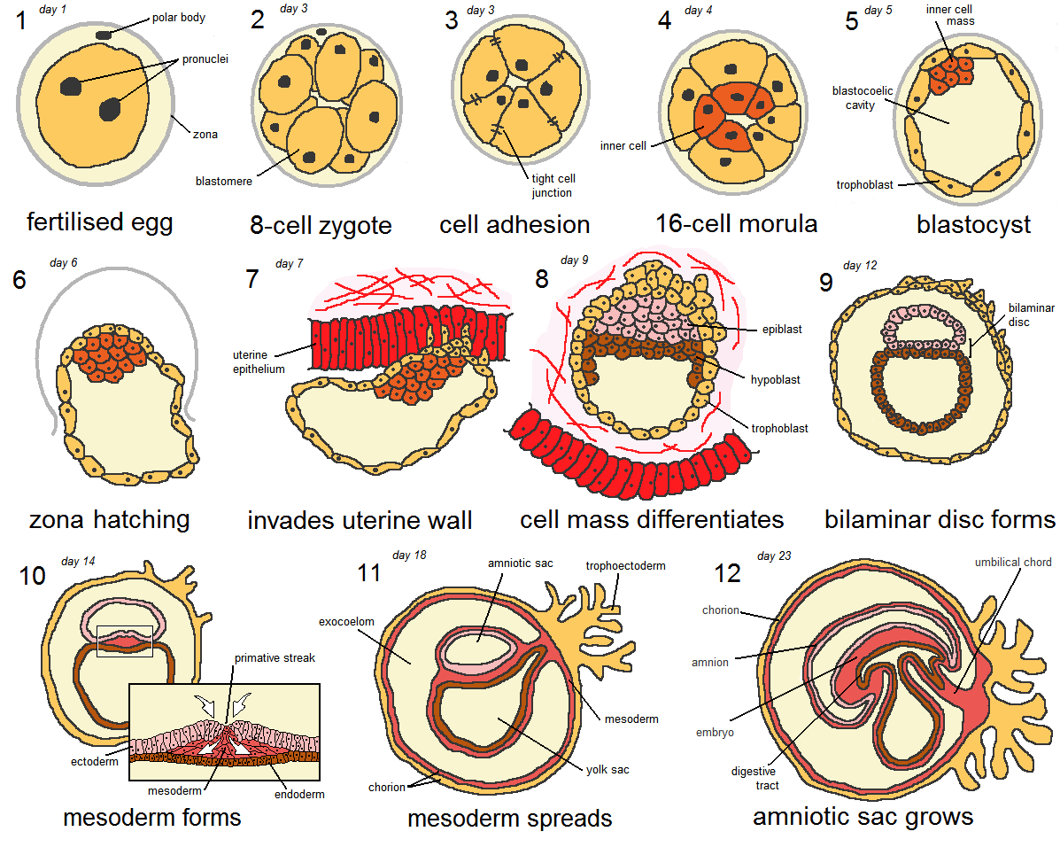 The first few weeks of embryogenesis in humans. Beginning at the fertilised egg, ending with the closing of the neural tube. References overall: stages 2-6 from Gray's Anatomy plate 9 and and stage 7 from Johnson (2007) Essential Reproduction stage 8 from and stage 9 from and stage 10 from Larsen WJ (1993) Human Embryology and Gilbert (2006) Developmental Biology (Fig 11.34) stages 11+12 from Gray's Anatomy plates 24-28 and